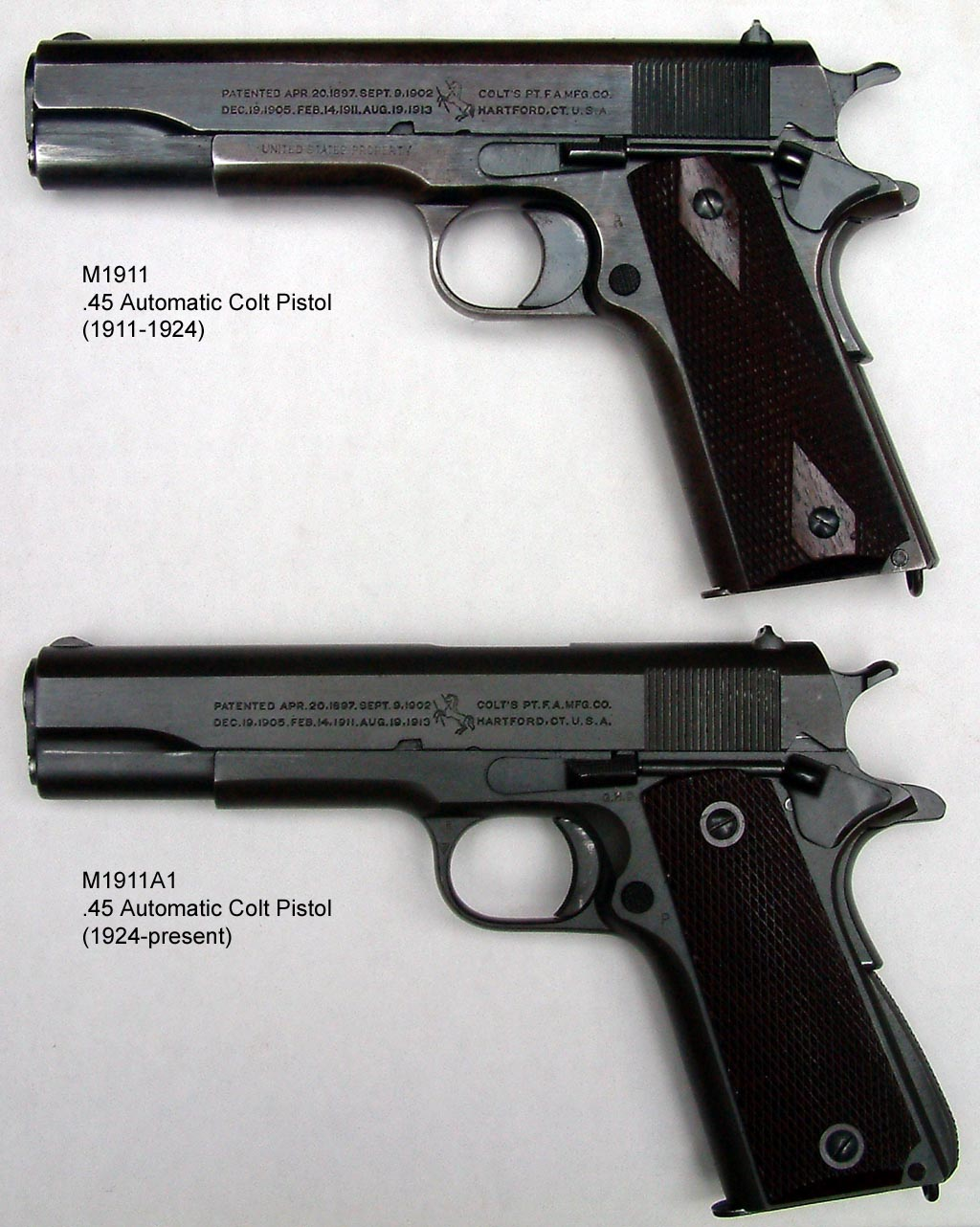 Comparison of government-issue M1911 and M1911A1 pistols.